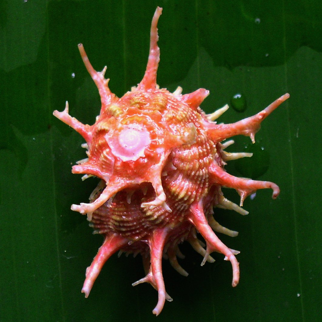 Photo of apical view of the shell of Angaria vicdani.